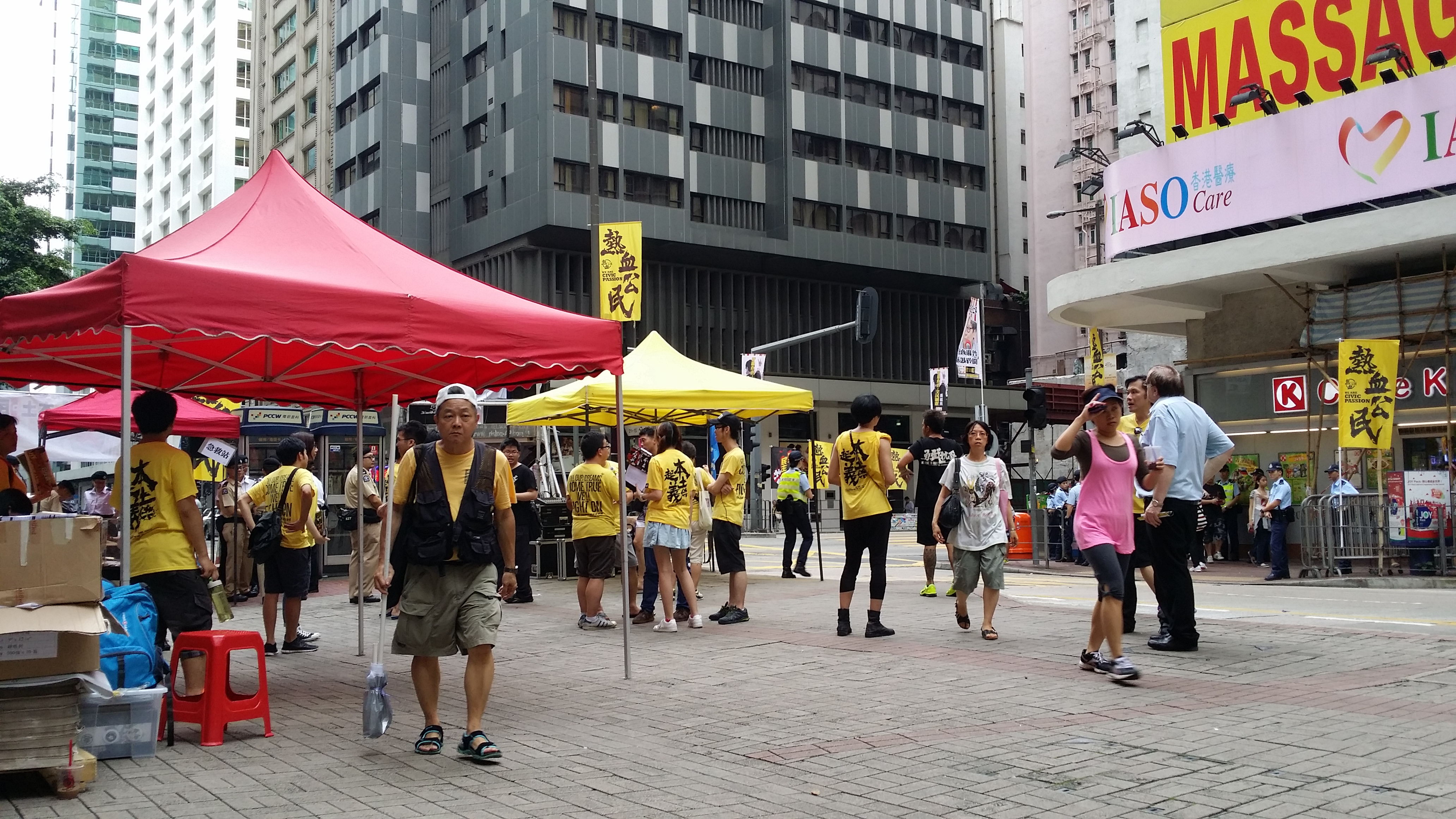 Civil Passion' First Day of July event in 2014